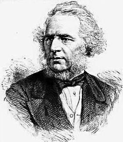 Charles Manning Reed, US Representative from Pennsylvania